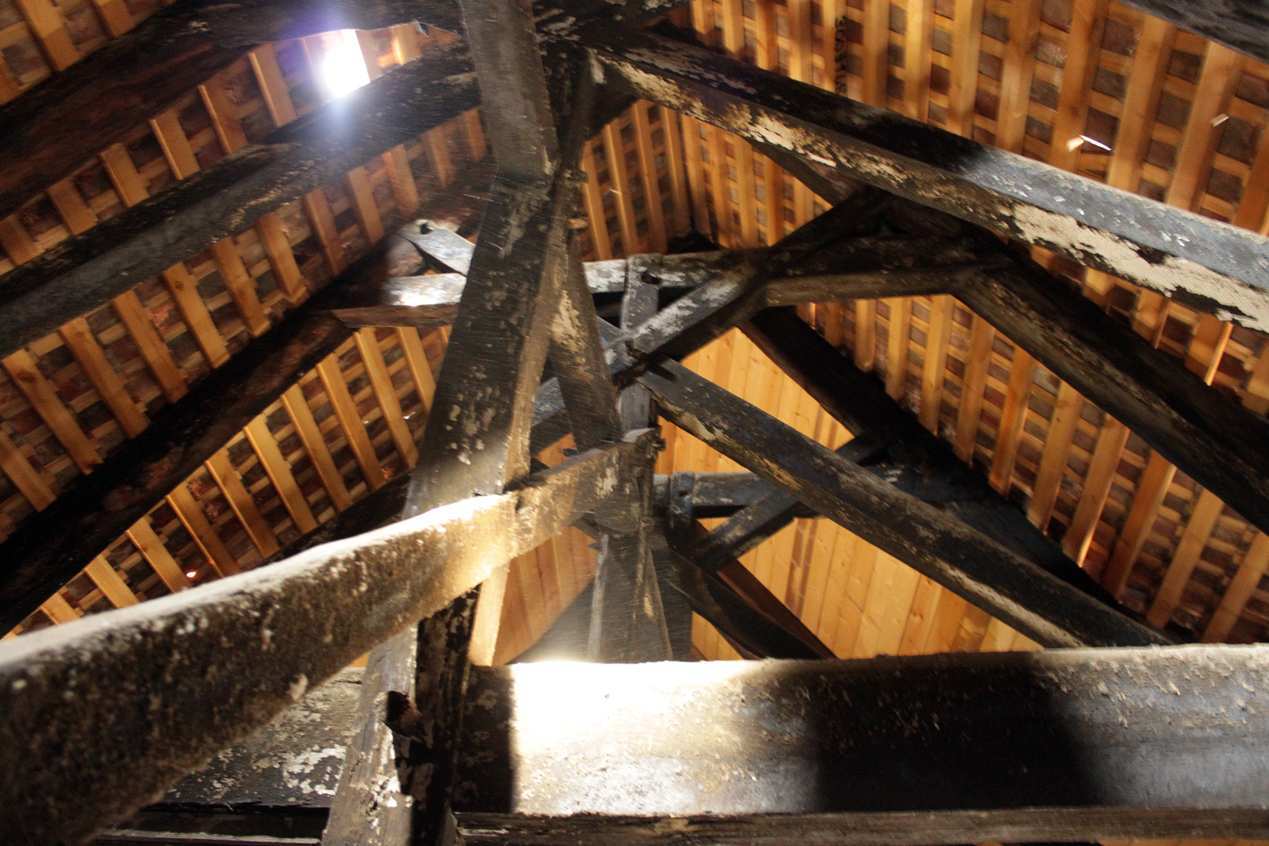 The original roof-framework of the Gothic House in Oldtown Brandenburg an der Havel from 1452.